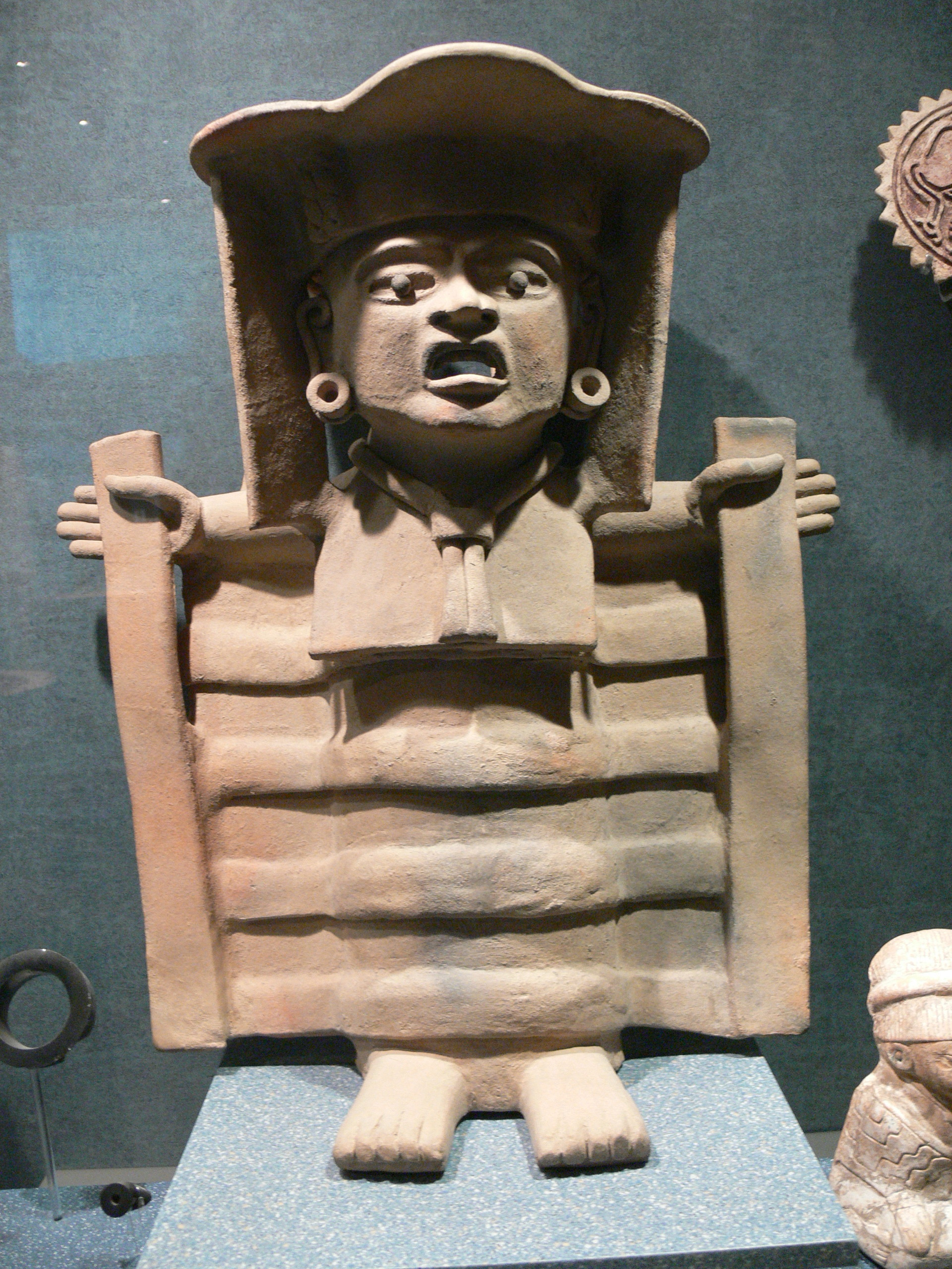 National Museum of Anthropology in Mexico City. Olmec figurine of the goddess of cotton.